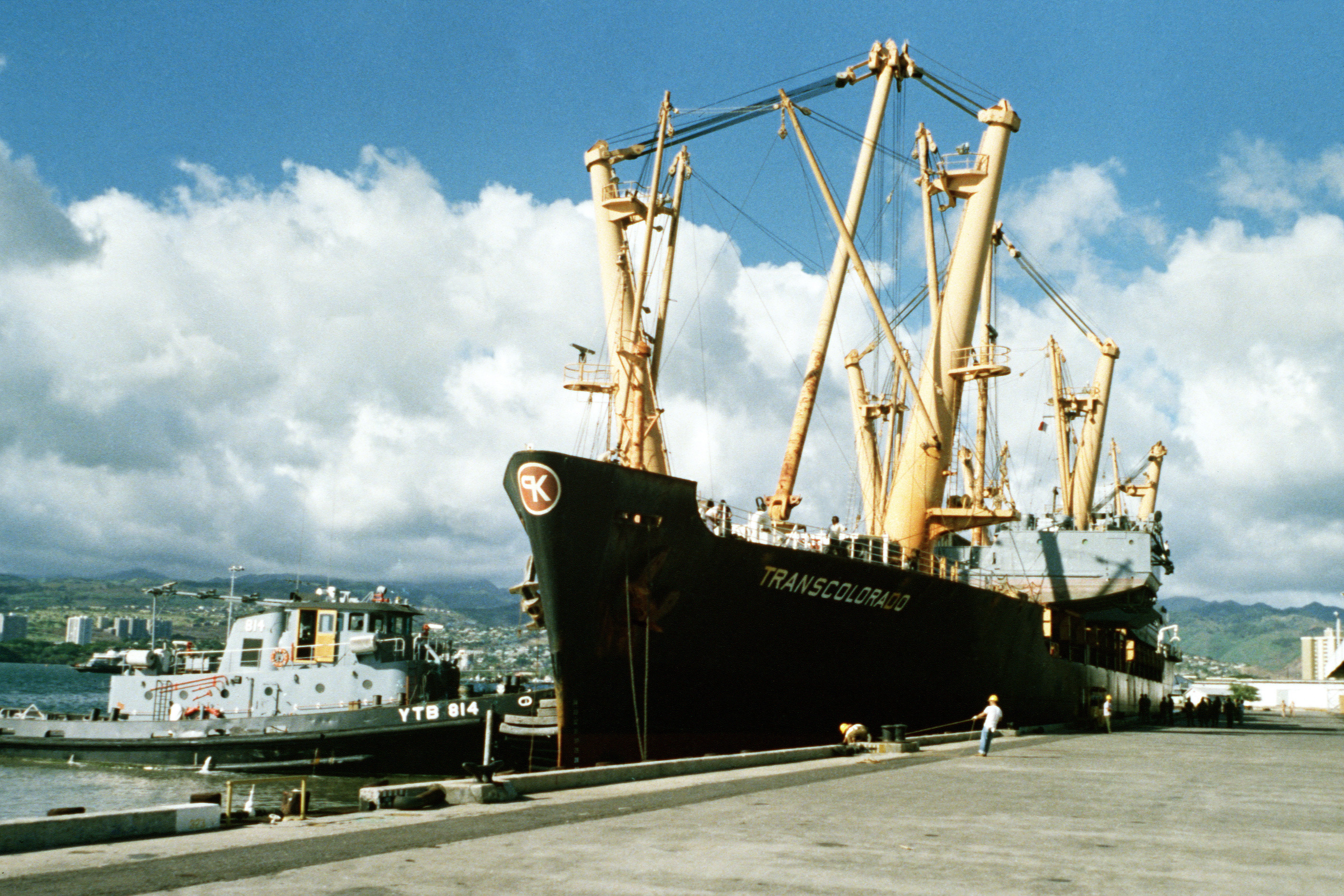 Waxahachie (YTB-814) pushes against the bow of the MSC time chartered cargo ship Transcolorado (T-AK-2005) as she ties up at Pier No. K-10 at Naval Station Pearl Harbor, HI., 10 September 1990.